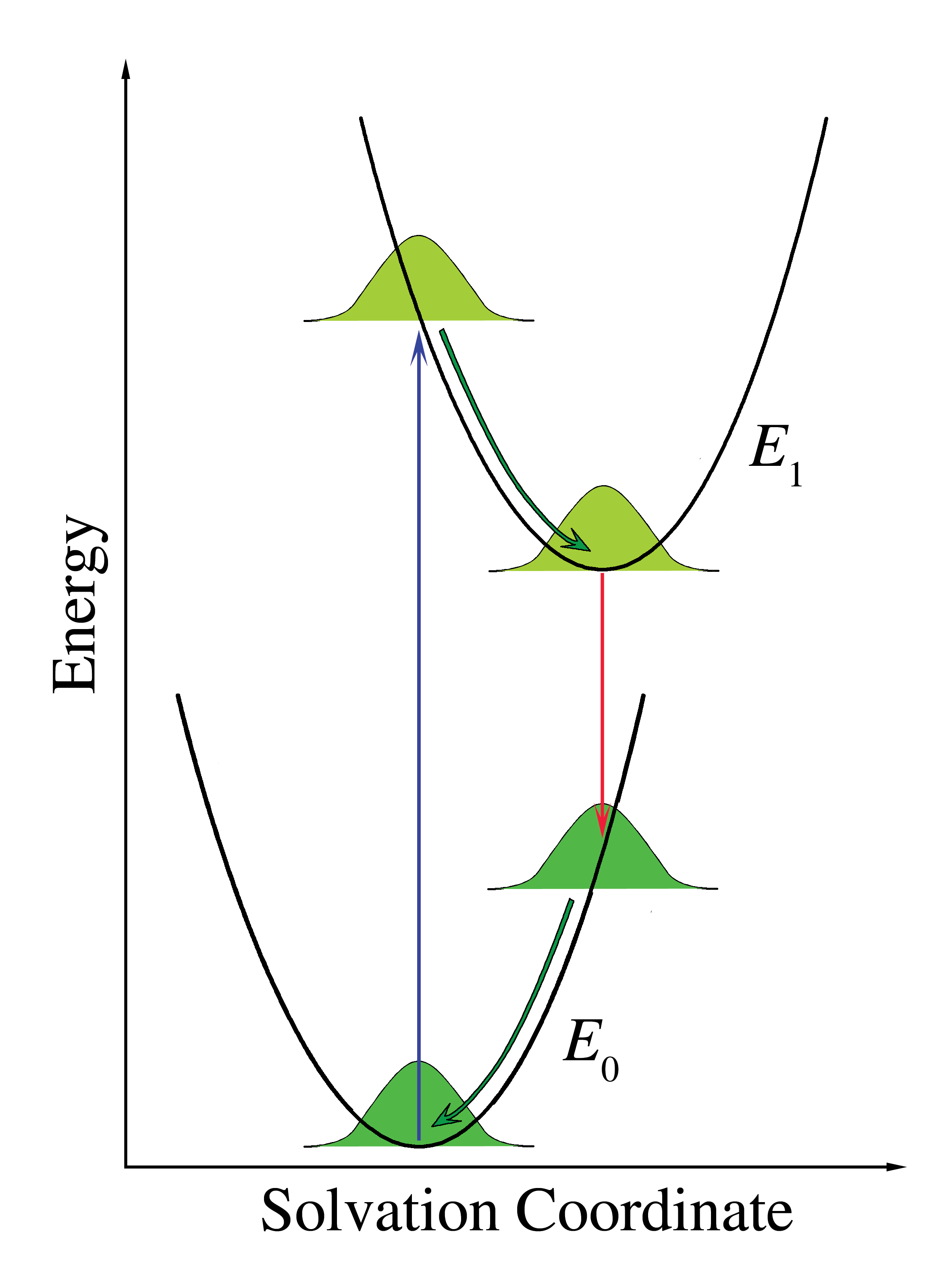 Diagram of the Franck Condon principle applied to solvation of chromophores.